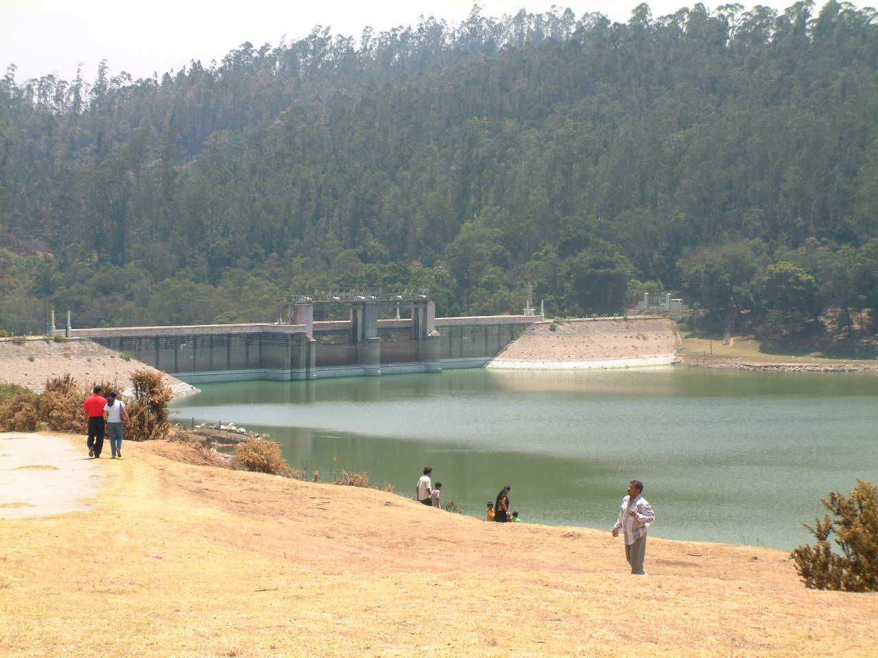 Banasurasagar dam